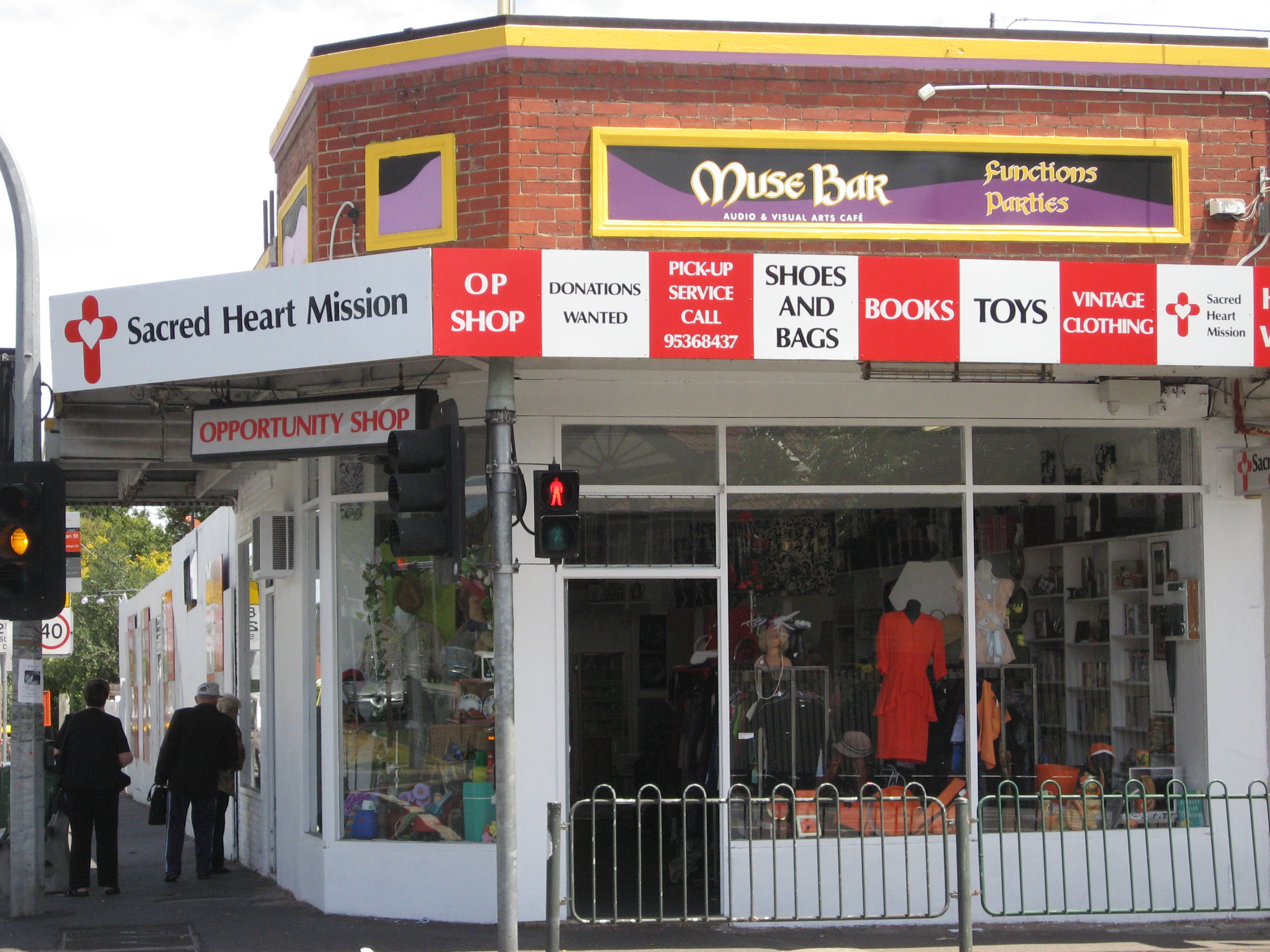 Photo of exterior of Sacred Heart Mission East St Kilda op shop